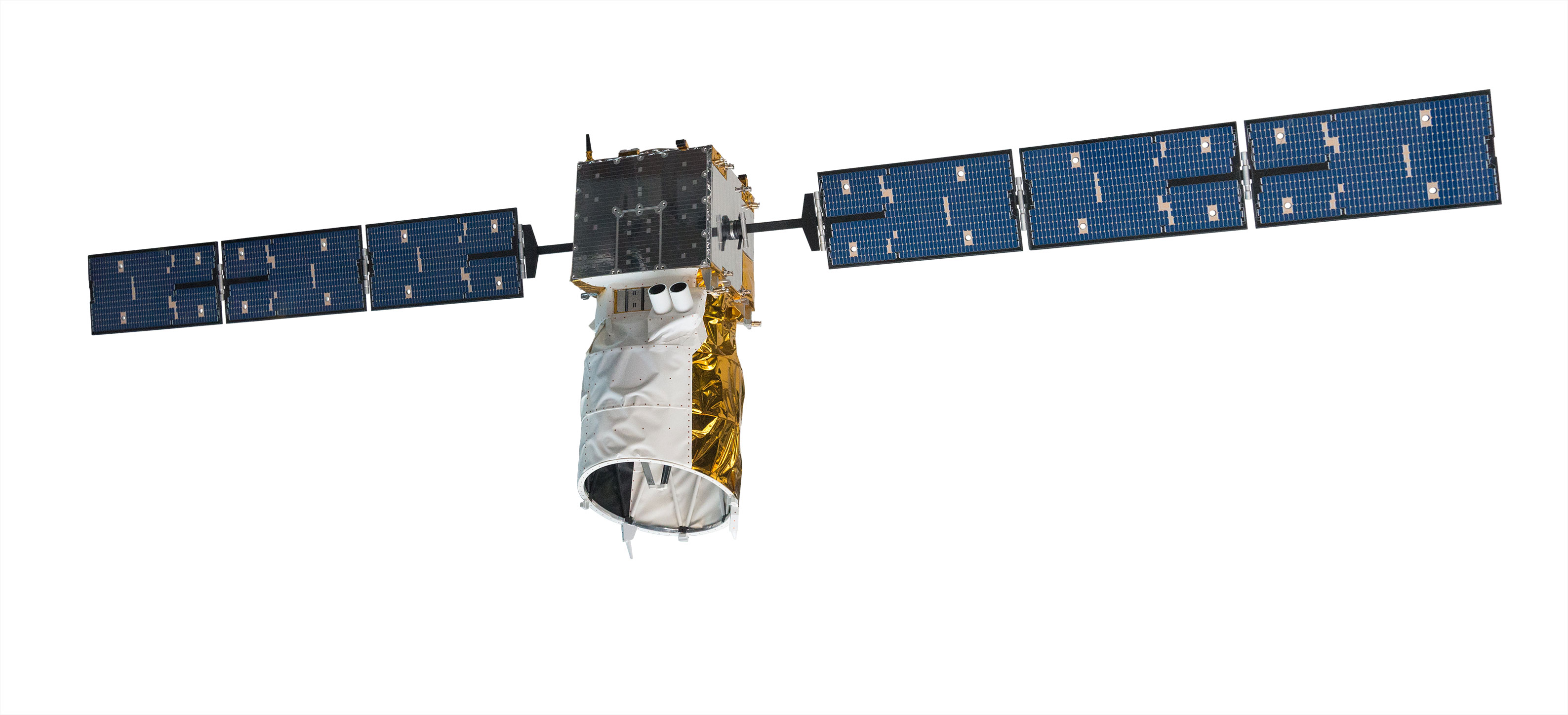 ESA-made model of the Aeolus satellite in scale 1:10, cut out on a white background